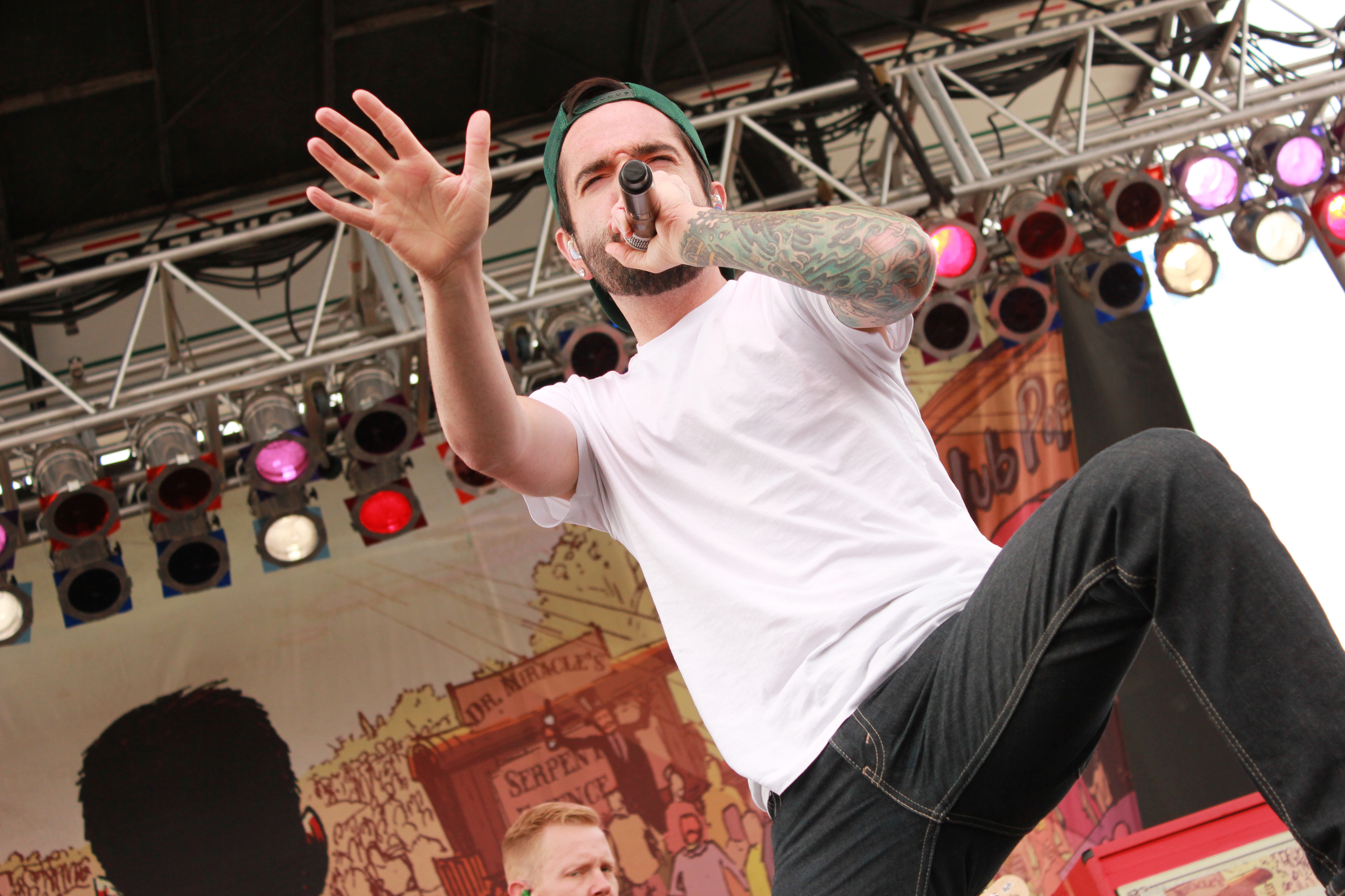 Jeremy McKinnon of A Day to Remember live in 2014